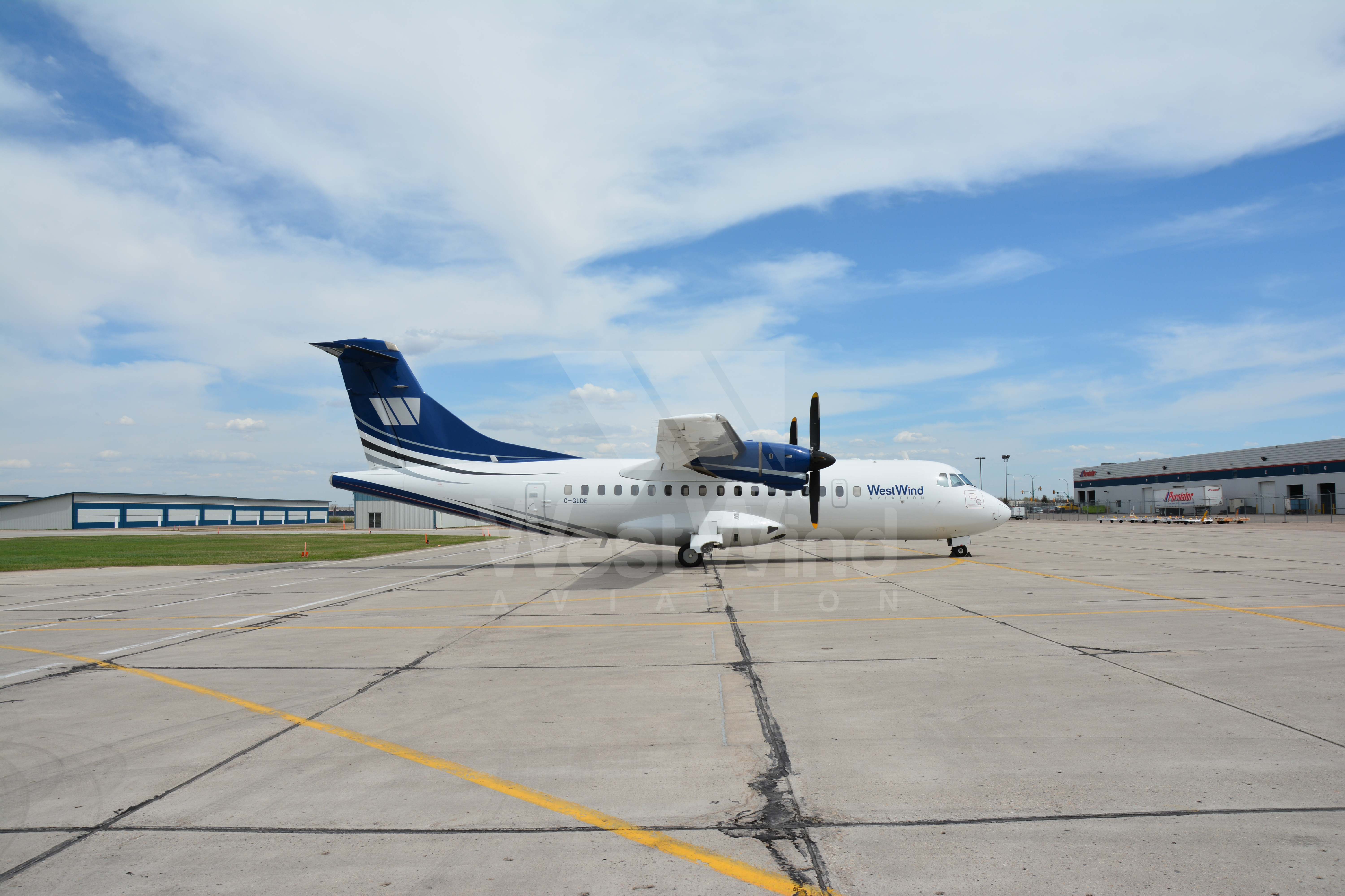 West Wind Aviation's latest ART- 42 with current paint scheme.